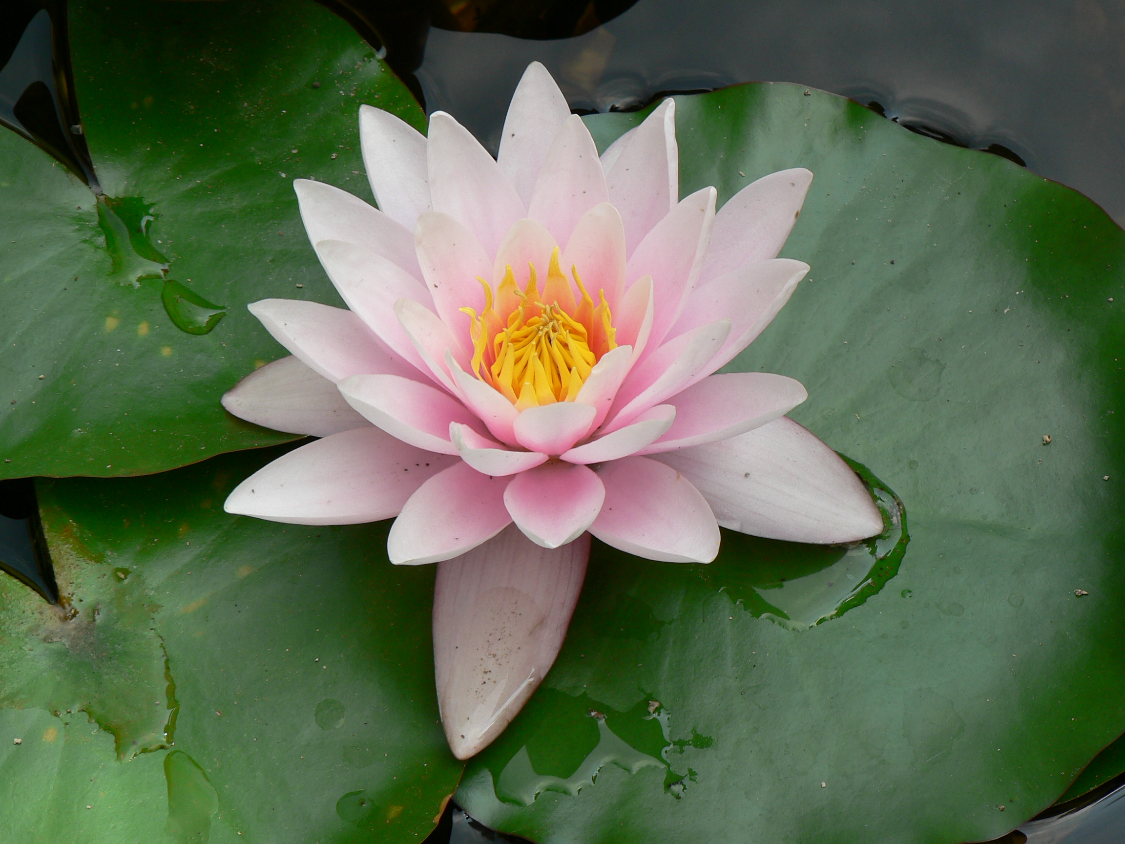 Botanical Garden Hanbury at Ventimiglia, Italy